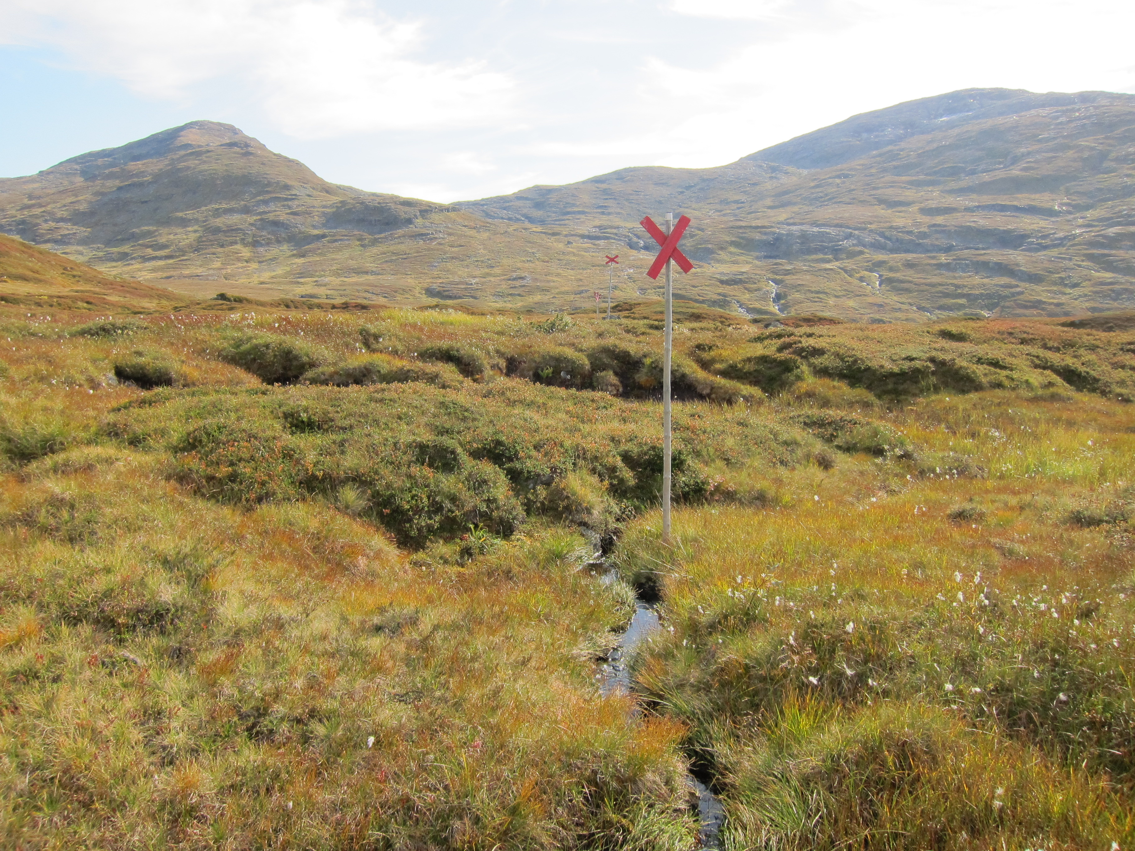 Skäckerfjällen in Sweden during late summer.